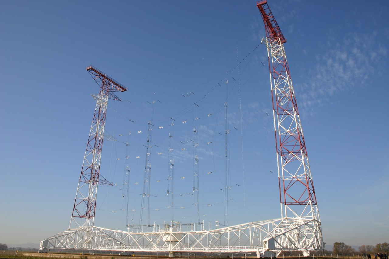 Shortwave broadcasting antenna at the Moosbrunn shortwave transmitting station of the Austrian Broadcasting Service (Österreichischen Rundfunksender GmbH, ORS), Moosbrunn, Austria. This is a curtain antenna, consisting of multiple wire dipole elements in front of a vertical curtain reflector of parallel wires. It radiates a beam of radio waves at a shallow angle above the horizon, which is reflected by the ionosphere and returns to Earth beyond the horizon. The entire antenna is mounted on a truss which turns on a spindle so it can be turned to different directions.